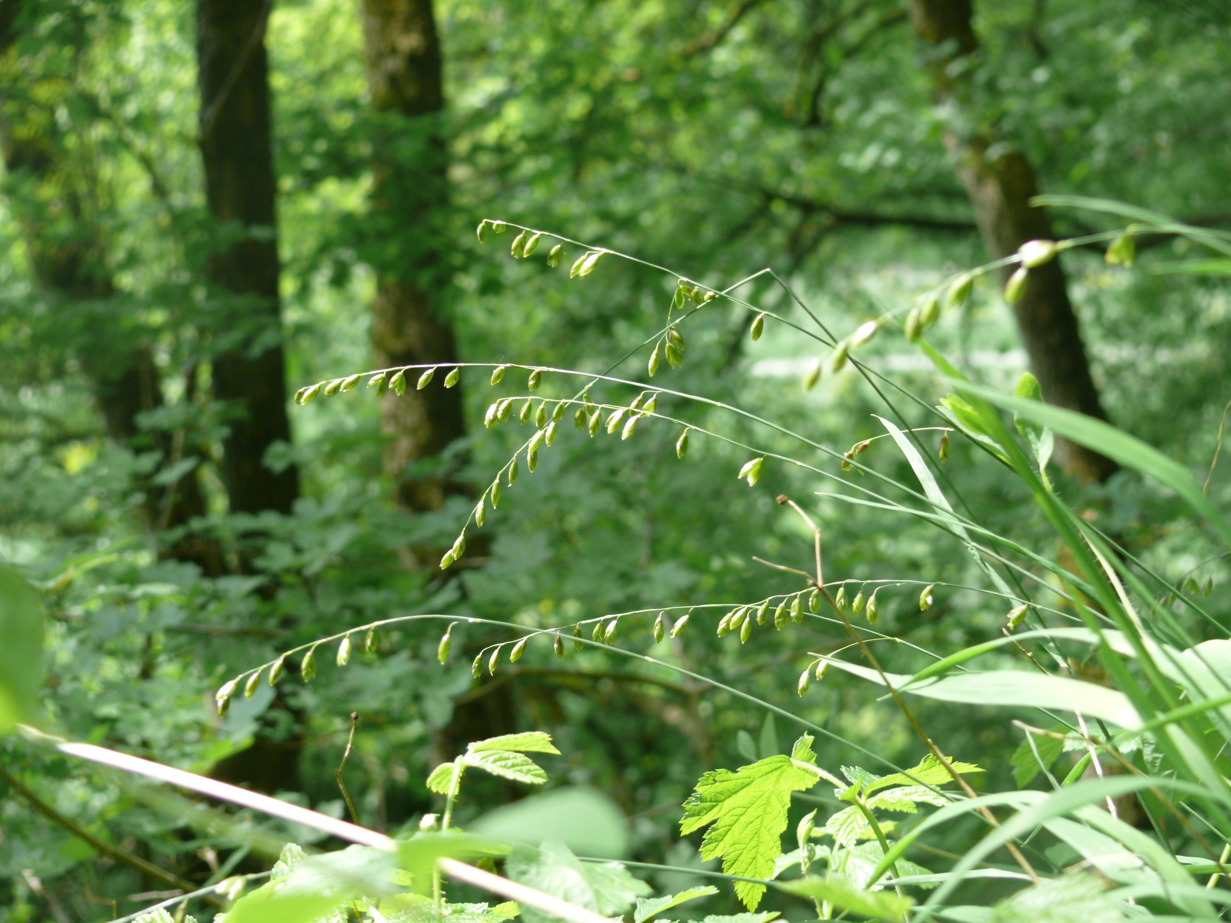 Melica picta,Hohenlohe